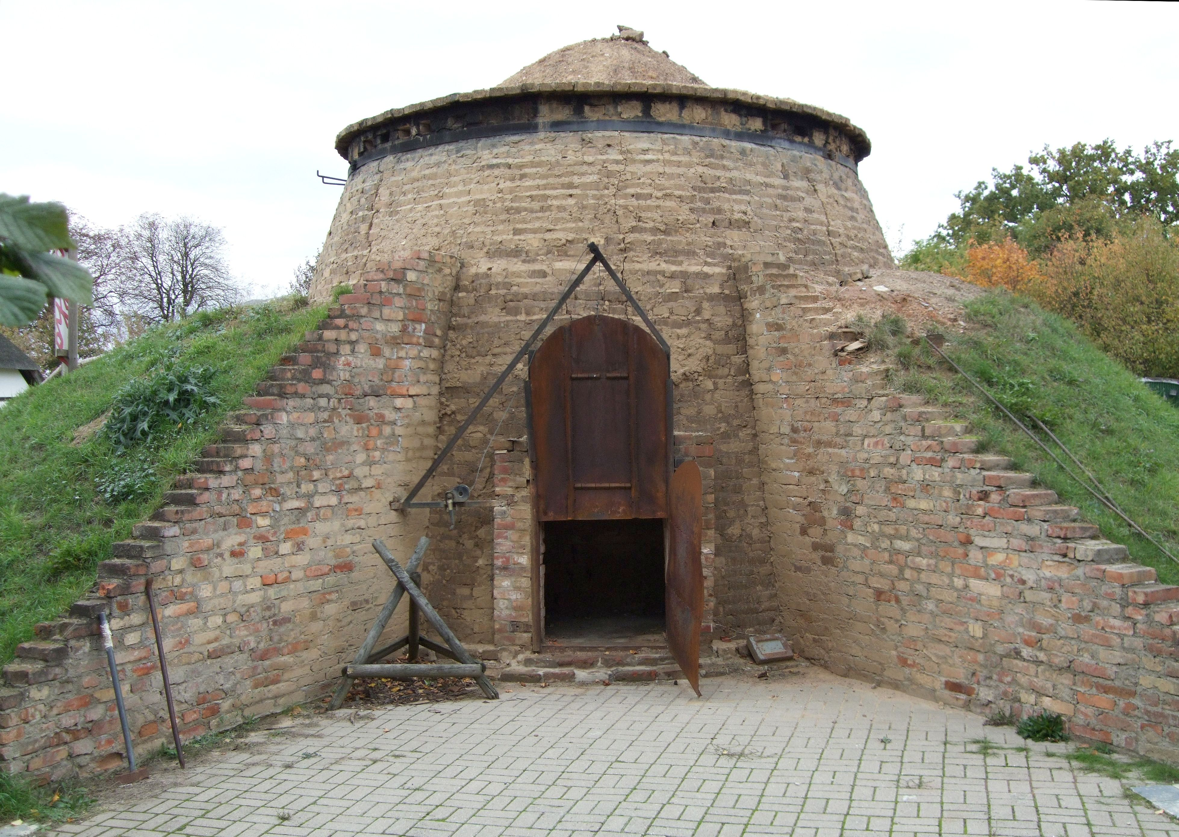 Tar furnace for production of low-temperature tar from wood; side of the heating hole. Sparow, Mecklenburg, Germany.